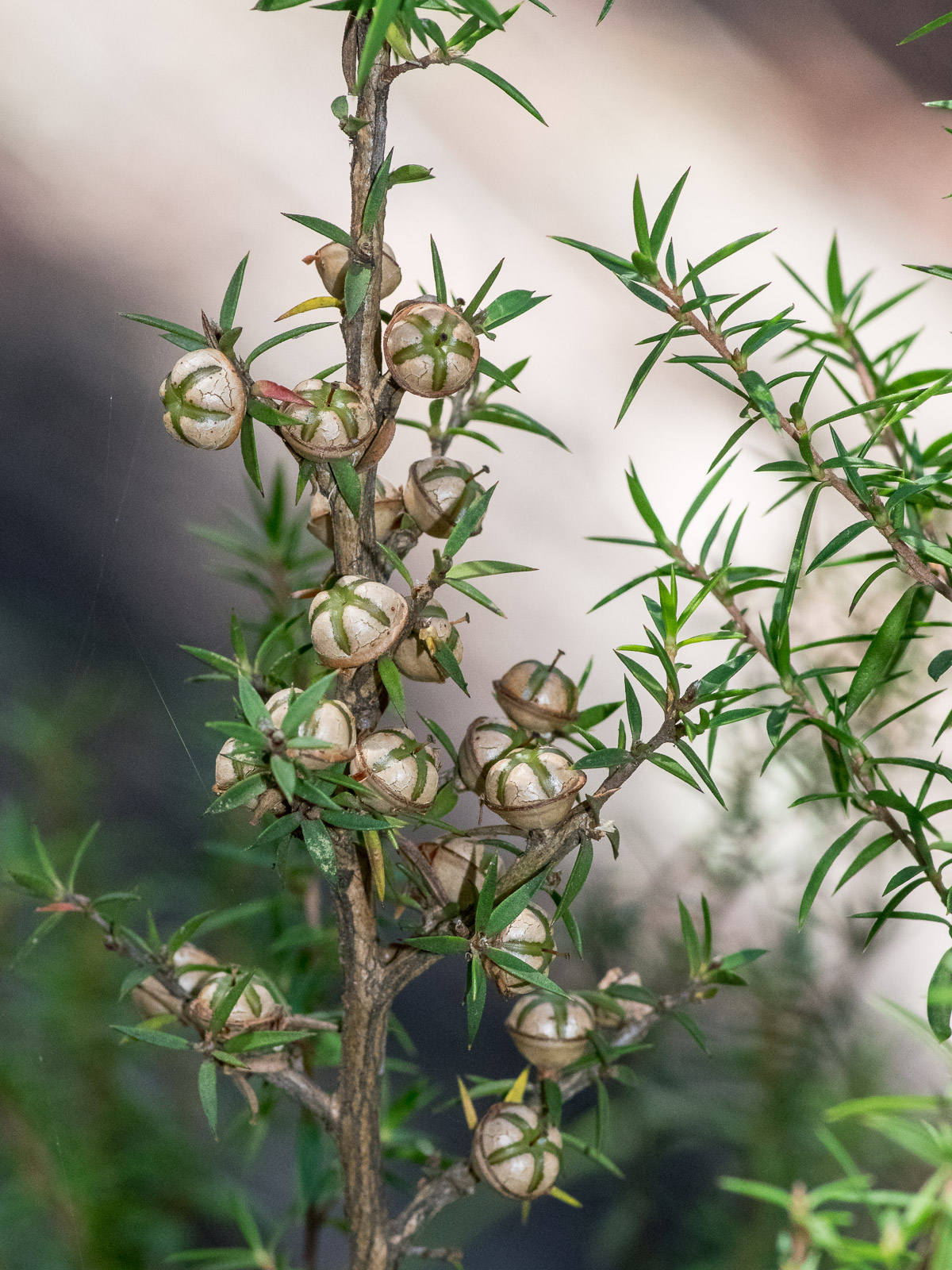 Fruit of Leptospermum continentale in the Macedon Ranges